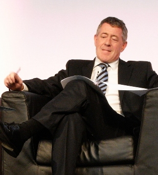 John Denham at Innovate '08